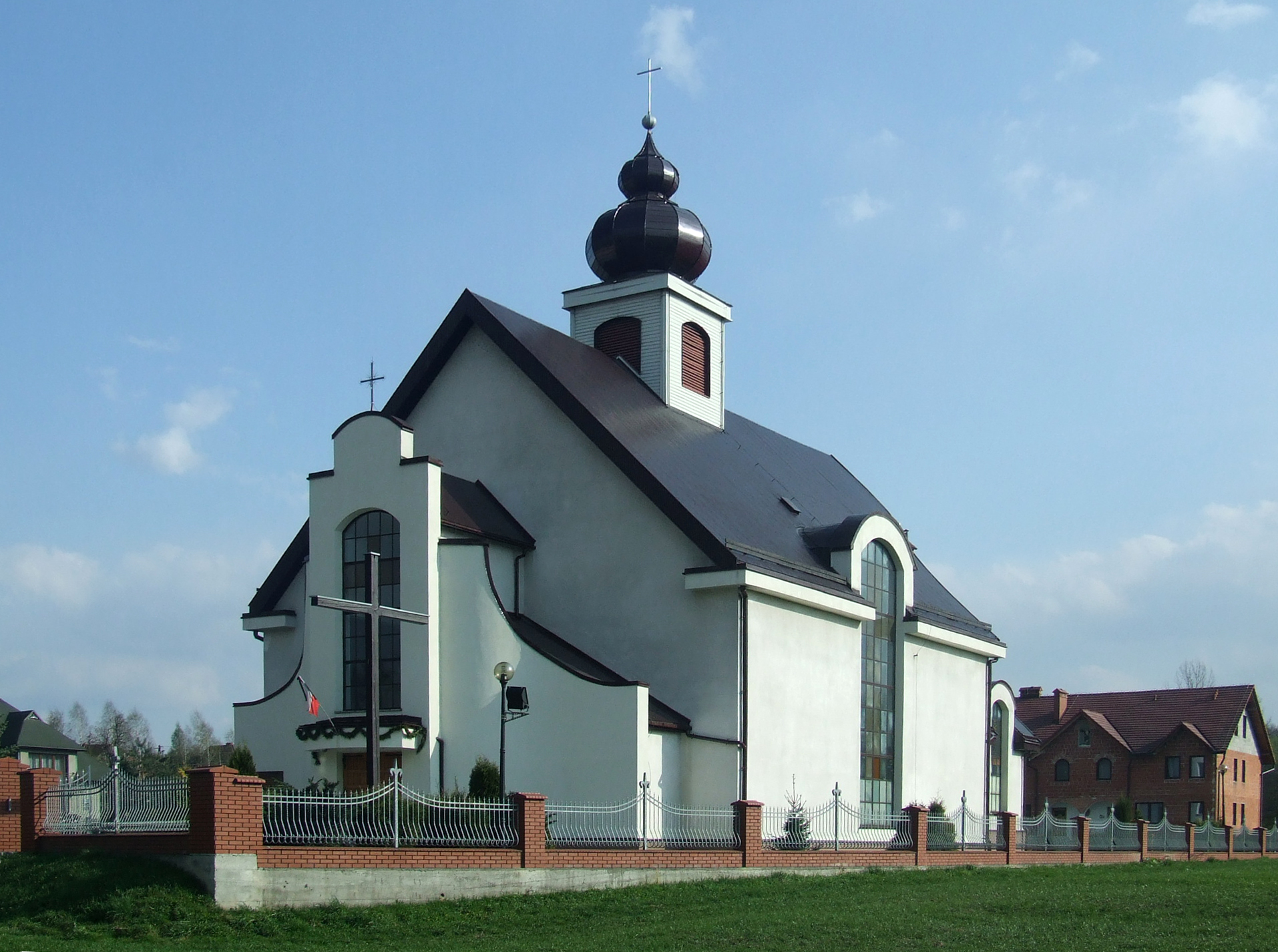 Catholic church in Barwald Gorny